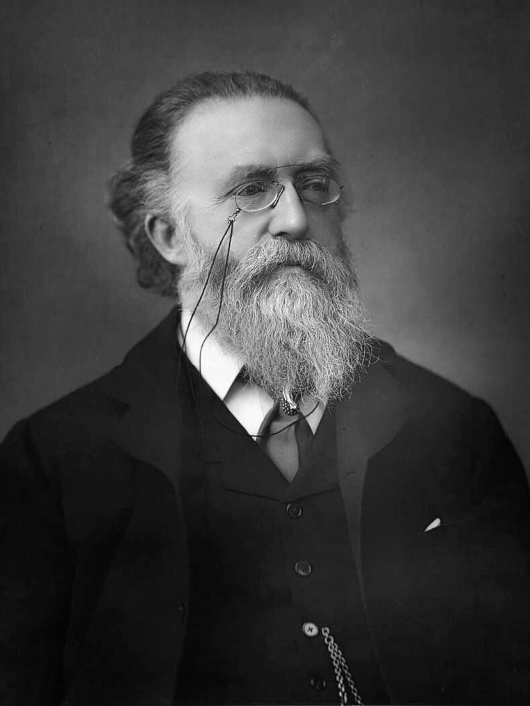 Portrait style photograph of Irish politician Justin McCarthy, taken 1891.